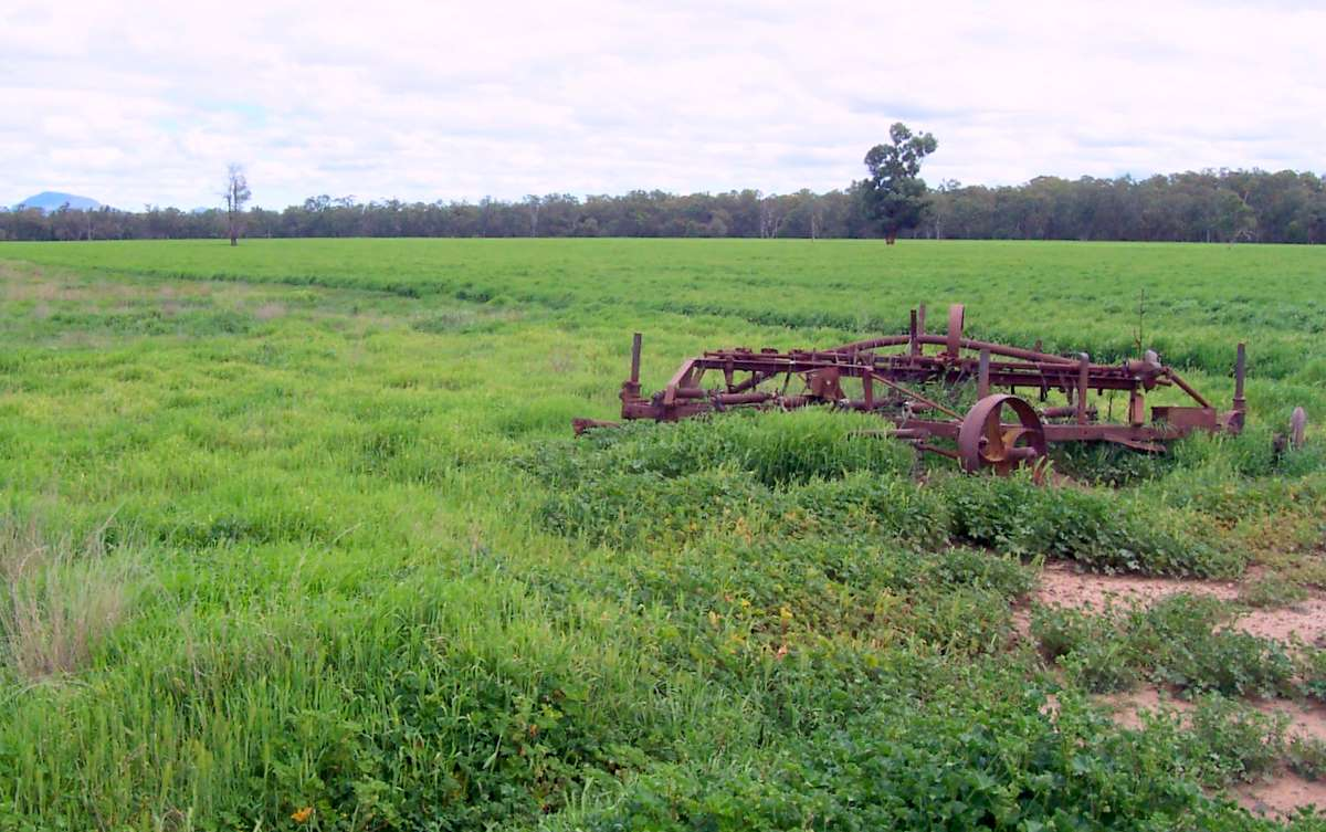 Farmland at Terry Hie-Hie, NSW, Australia